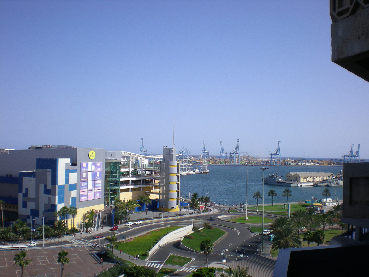 View of the Puerto De La Luz, Las Palmas de Gran Canaria